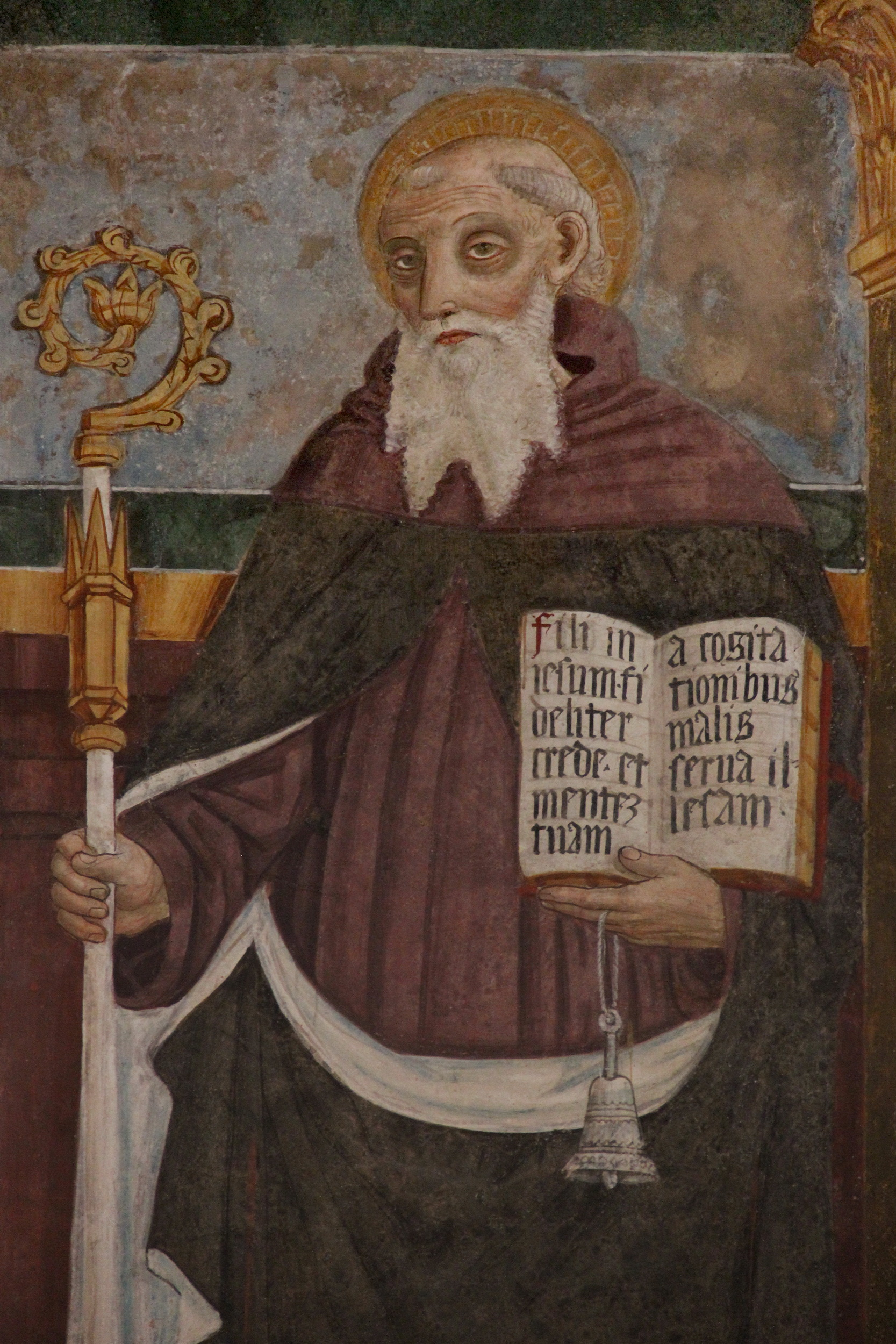 Santuario Madonna del Carmine, San Felice del Benaco, Italy Santuario Madonna del Carmine, San Felice del Benaco Native nameSantuario Madonna del Carmine, San Felice del BenacoLocationSan Felice del Benaco, Lombardy, ItalyCoordinates45° 34′ 49.19″ N, 10° 32′ 49.25″ E